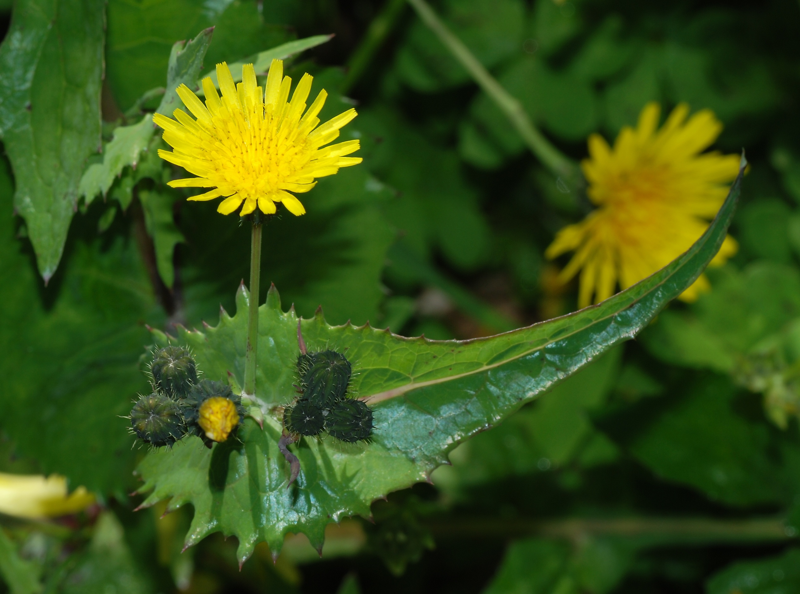 Sonchus oleraceus A Smooth Sow-Thistle.